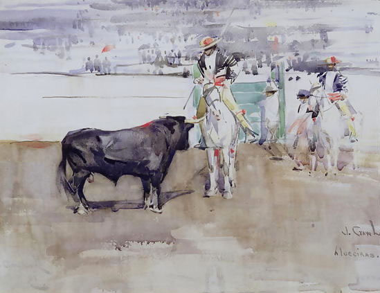 The Plaza de Toros de las Palomas, officially "Monumental Las Palomas", is a bullfighting ring located in Algeciras (Andalucia, Spain)